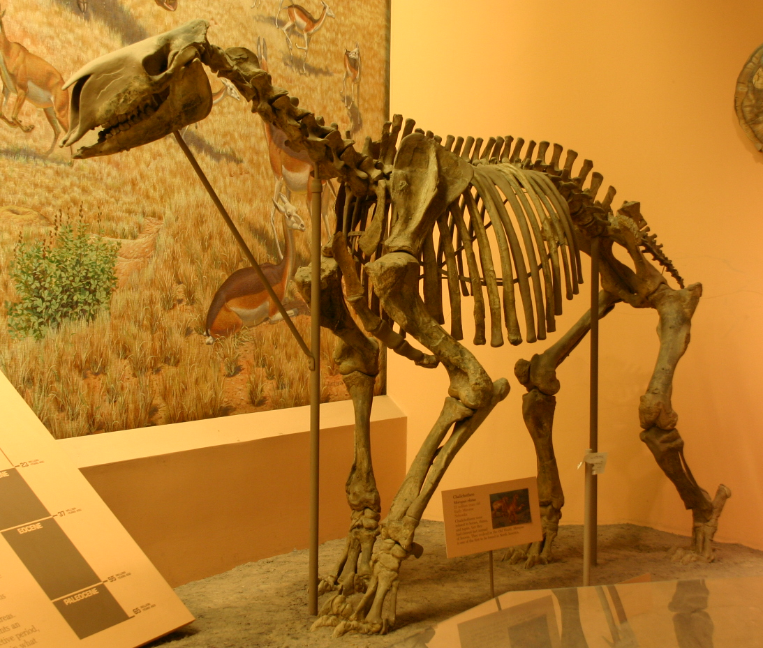 Moropus elatus exhibited in Smithsonian National Museum of Natural History: Hall of Fossils